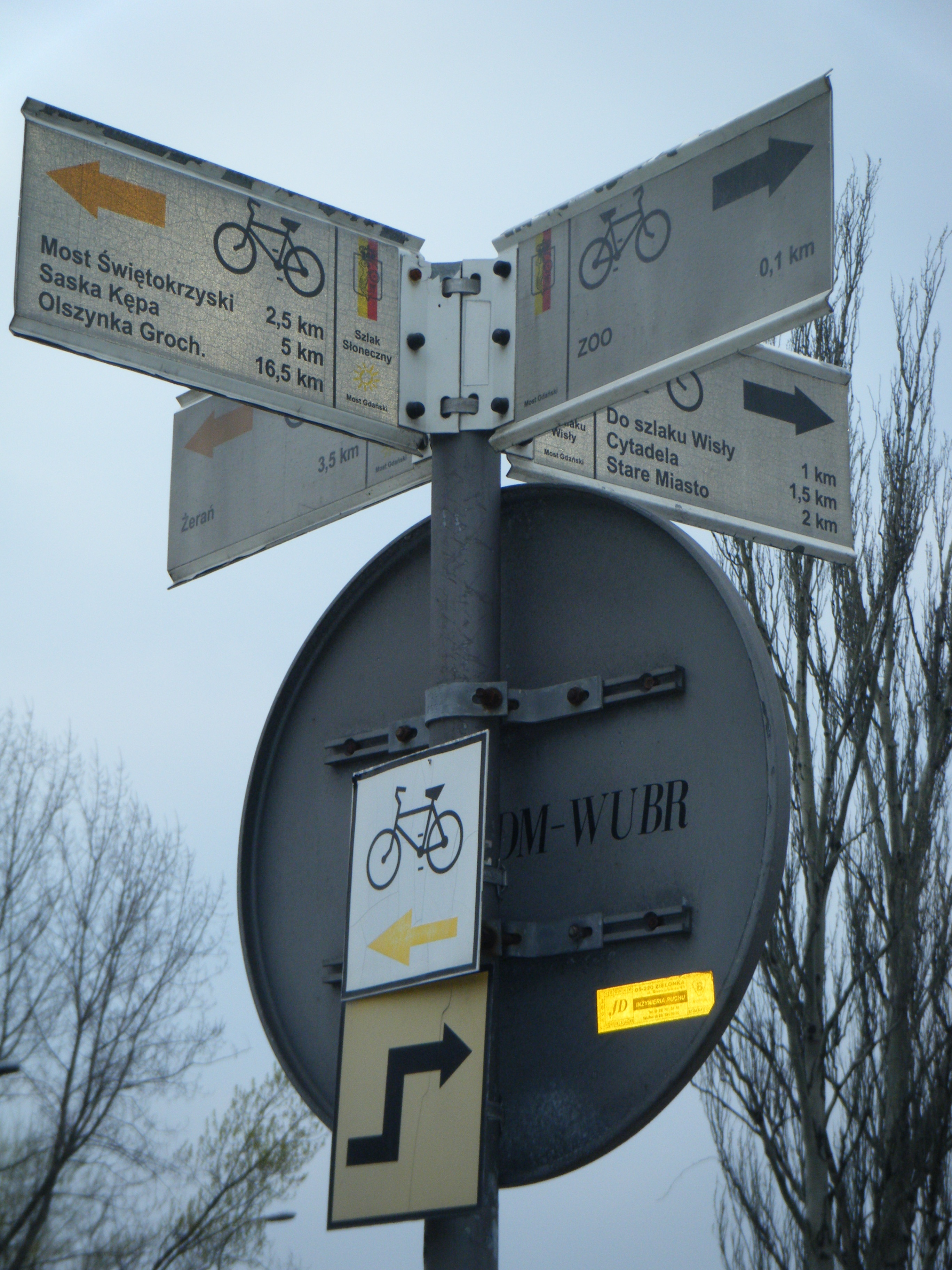 En example of a sign on a bikeway in Warsaw